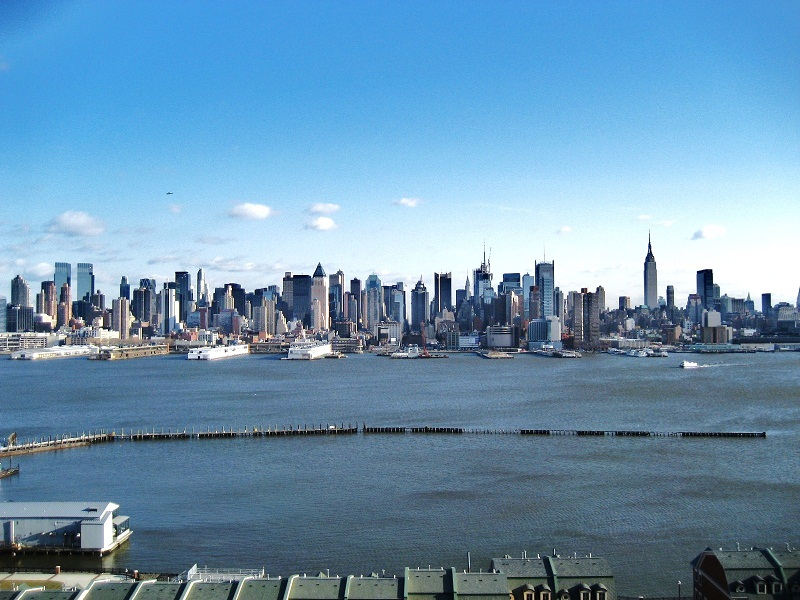 Hamilton Park — in Weehawken, New Jersey. With view of Hell's Kitchen and New York City skyline HUDSON Place, EAST Boulevard, & ELDORADO Place.